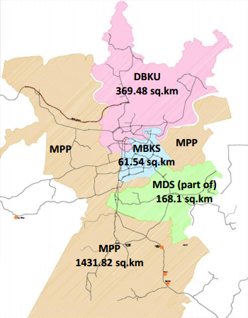 Local authority areas of Greater Kuching. DBKU = Kuching North City Hall MBKS = Kuching South City Council MPP = Padawan Municipal Council MDS = Samarahan District Council